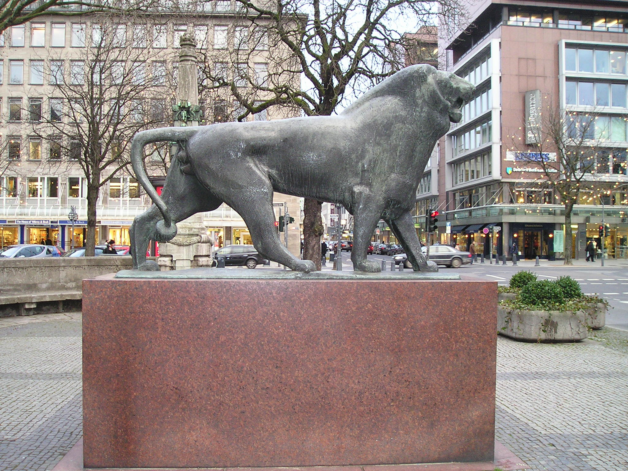 Lion (heraldic symbol of the Countship Berg) from the side